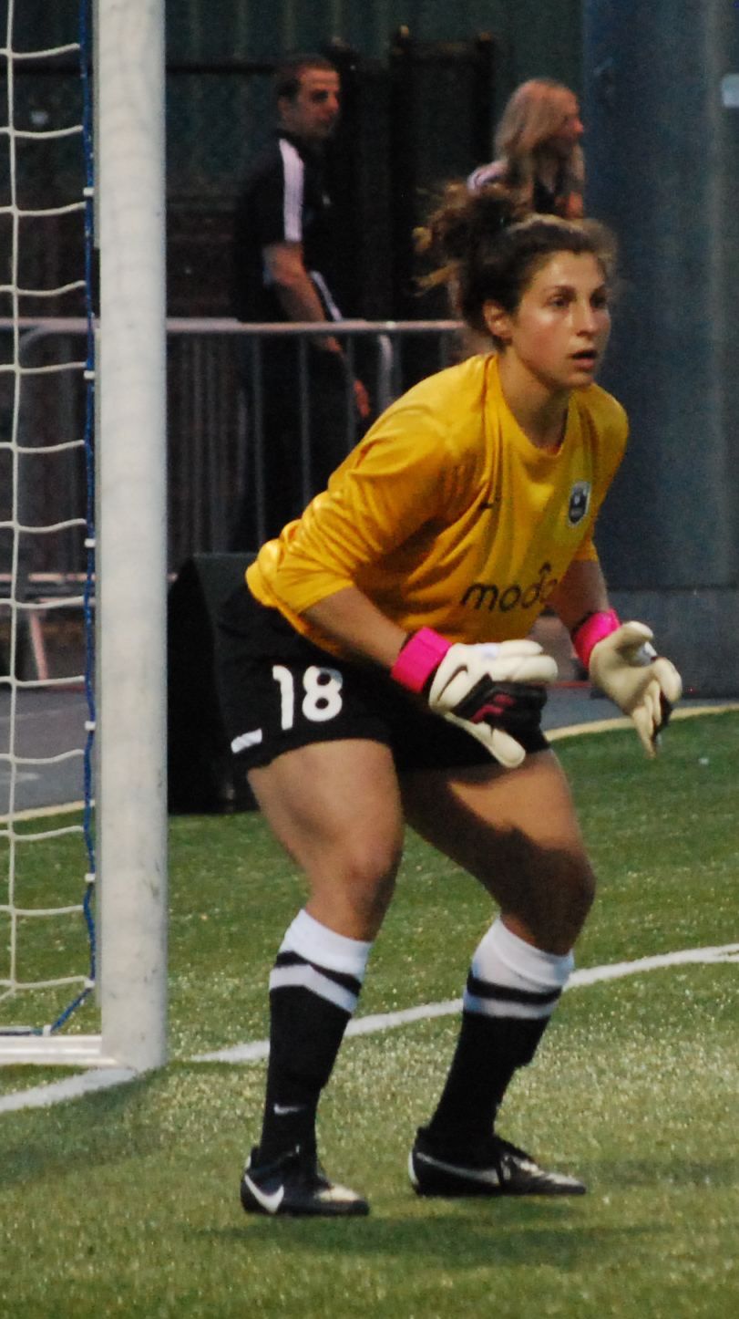 Seattle Reign FC goalkeeper Michelle Betos in a match against the Washington Spirit on May 16, 2013 at Starfire Stadium in Tukwila, Washington.